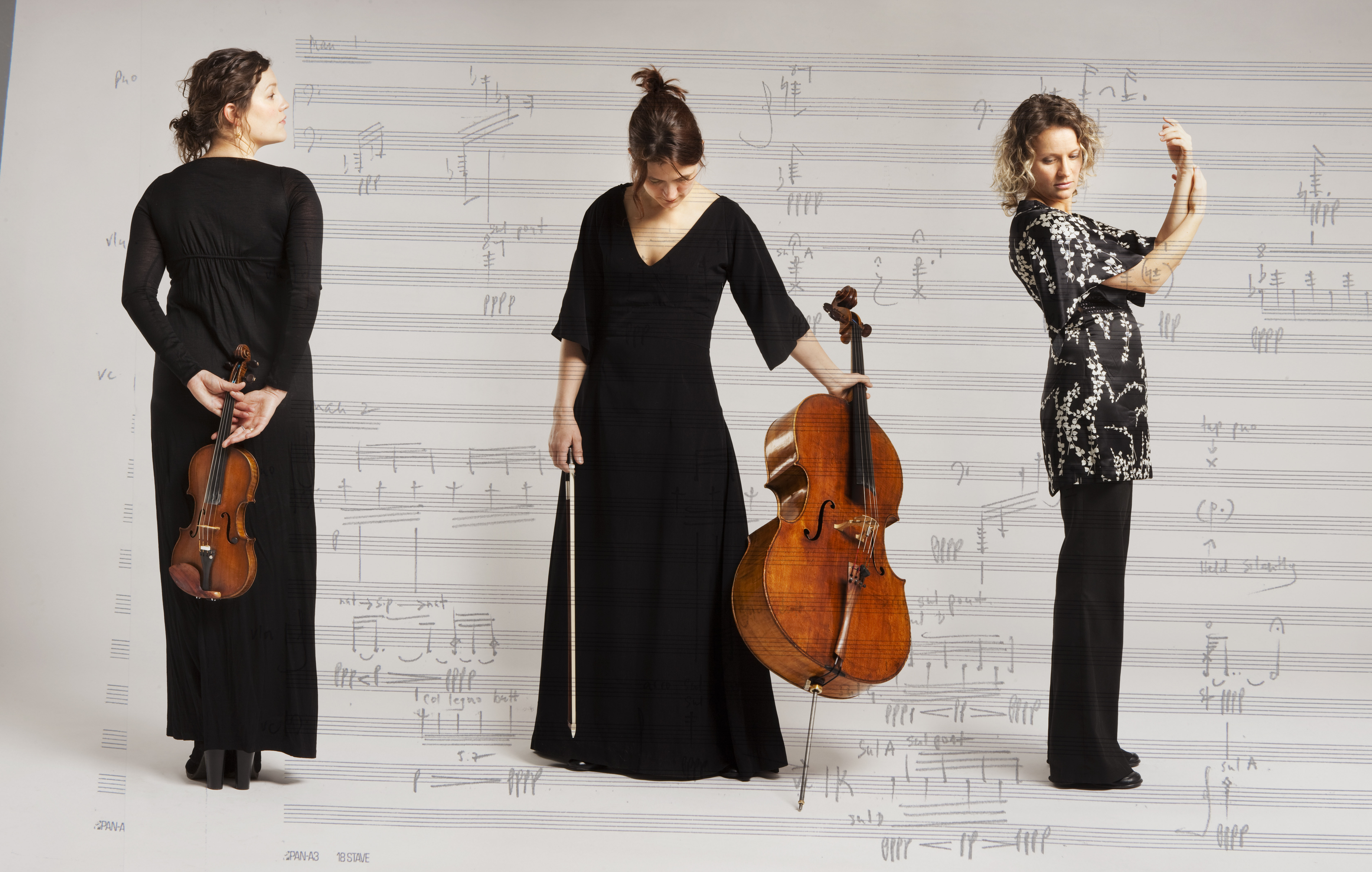 The Norwegian piano trio Alpaca Trio, basis of Alpaca Ensemble, specializing in jazz and contemporary music. Left to right: Sigrid E. Stang (violin), Marianne B. Lie (cello), Else Bø (piano)